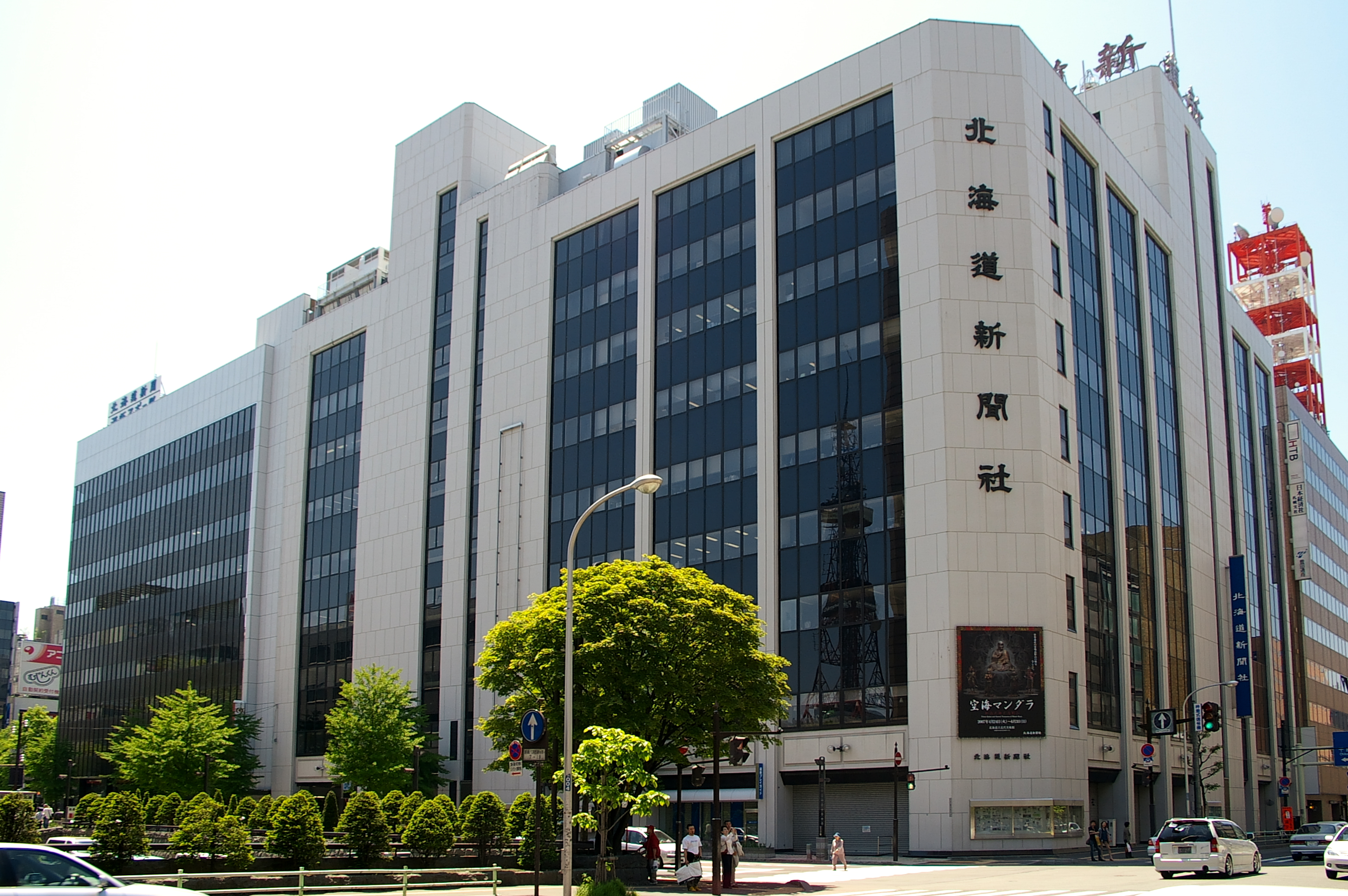 Photograph of Doshin Building, headquarters of the Hokkaido Shimbun Press, in Chuo-ku, Sapporo, Hokkaido, Japan.